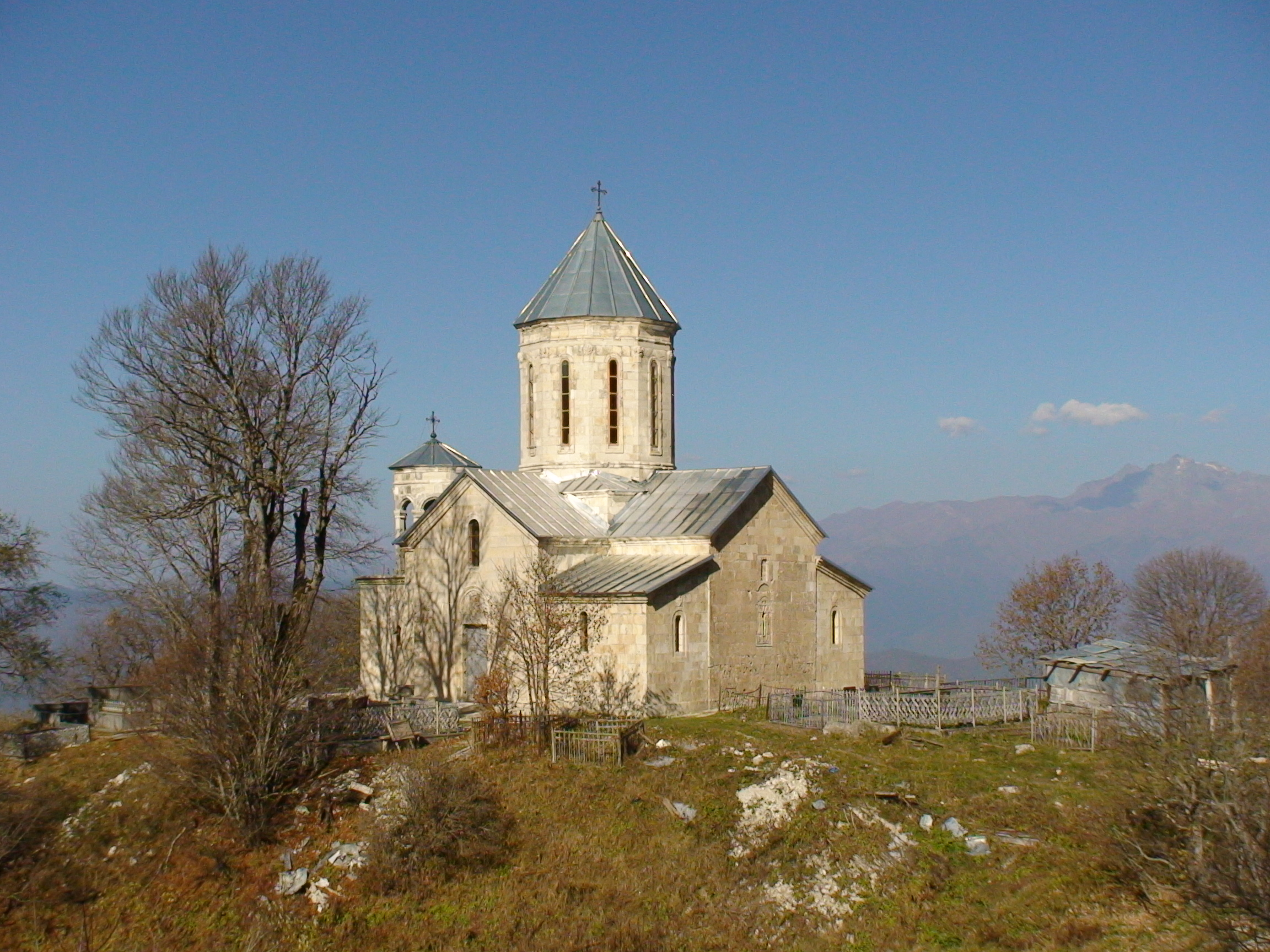 The Mravaldzari village Georgian orthodox Cathedral.